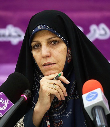 Molaverdi in a press conference.